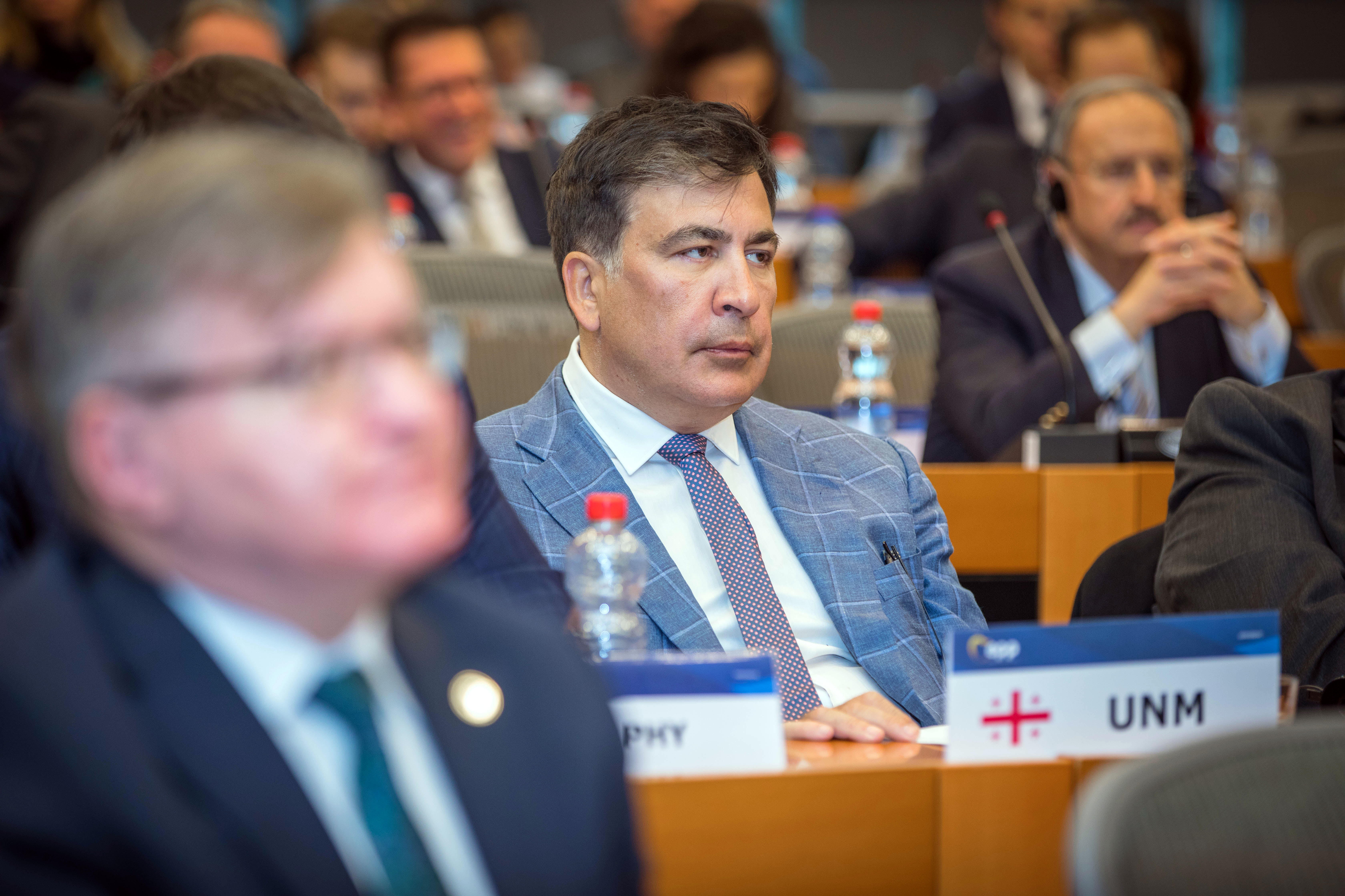 EPP Political Assembly, 5 February 2019